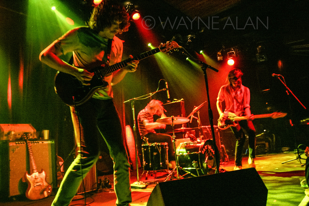 Photo of Bare Wires